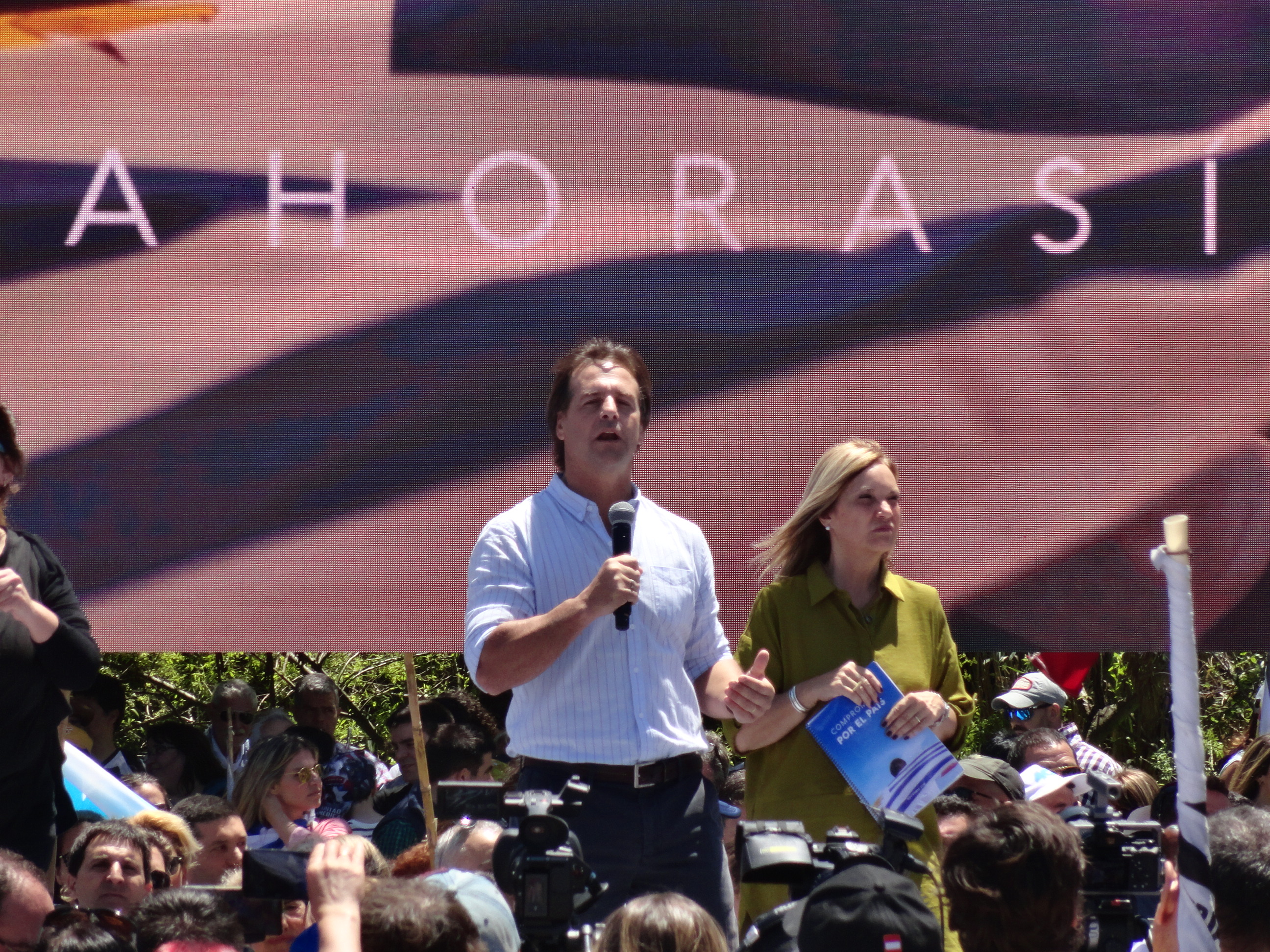 Meeting at the Molino de Pérez by the "Compromiso por el país" coalition, before the second round of the 2019 Uruguay national elections.